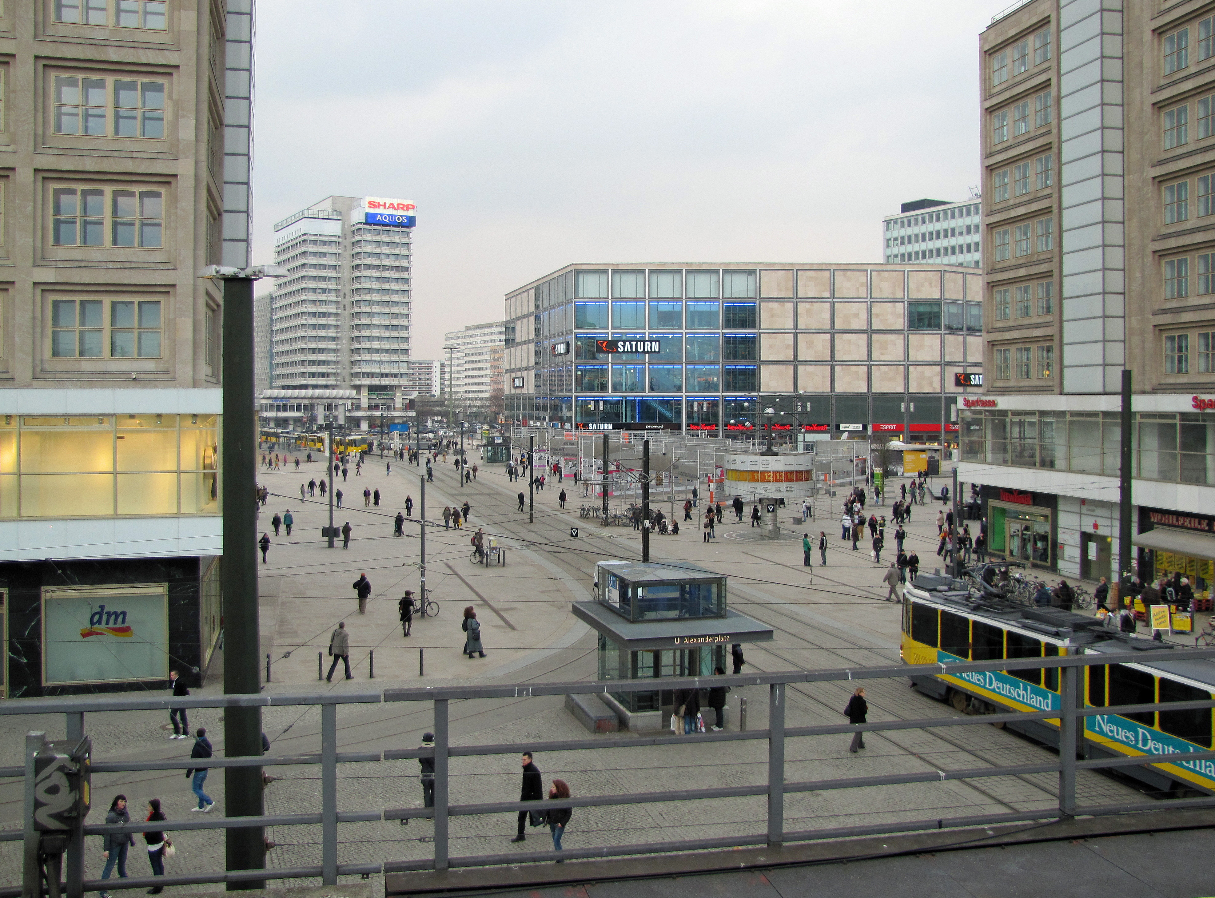 "Alexanderplatz" with "world clock" in Berlin, Germany.